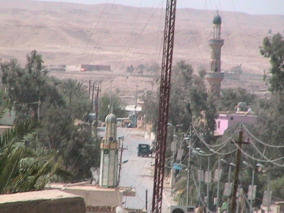 city of Rawa in Iraq